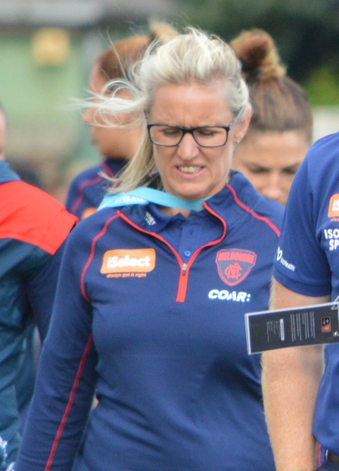 Debbie Lee during the round 3, 2017 AFL Women's match between the Western Bulldogs and Melbourne.